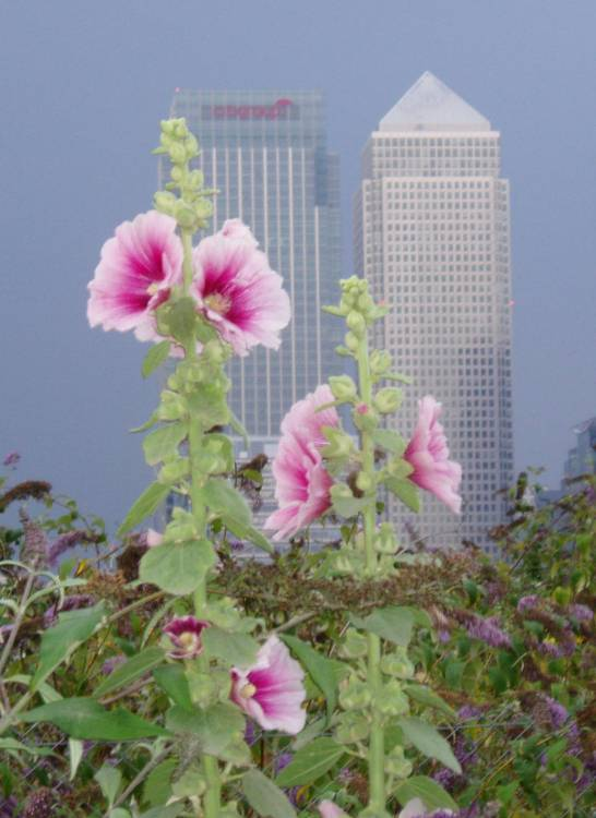 Natural and man-made structures, contrasted. Hollyhocks in the foreground with Canary Wharf behind.